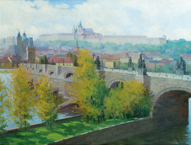 View of Prague Castle over the Charles Bridge by Czech painter Stanislav Feikl (probably oil painting)